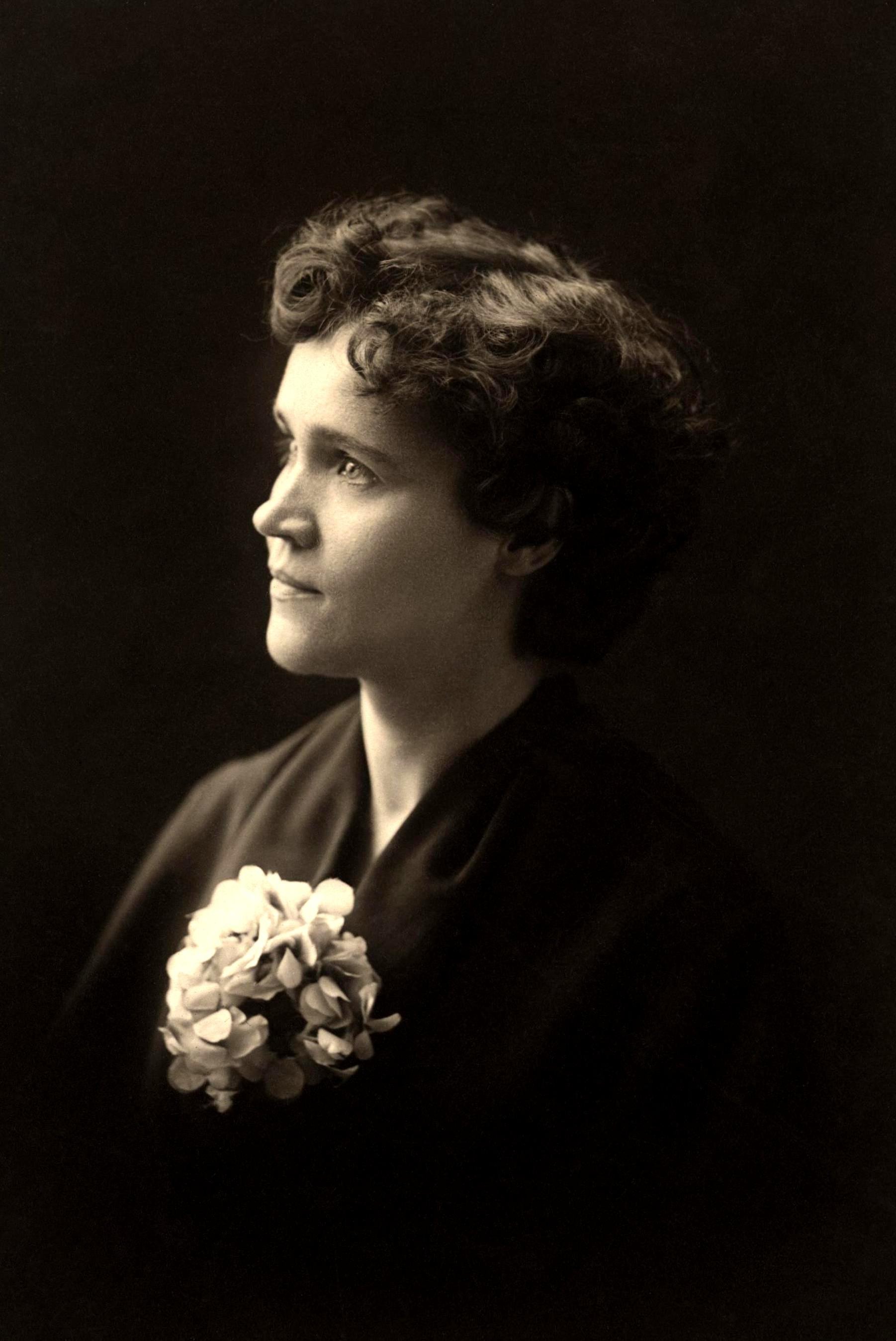 Voltairine de Cleyre (age 35), in Philadelphia. Restoration – dust removed.